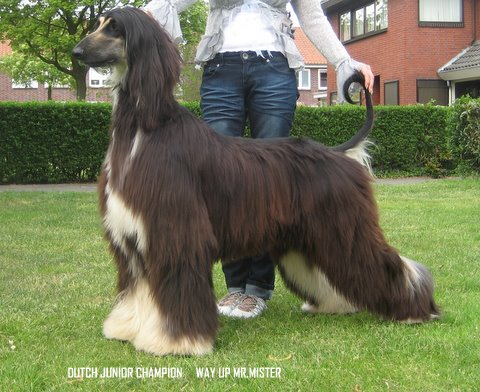 Way Up Mr.Mister (Maestro)born: 19-11-2007 Dutch Junior Champ (CC/res CC winner) more info on